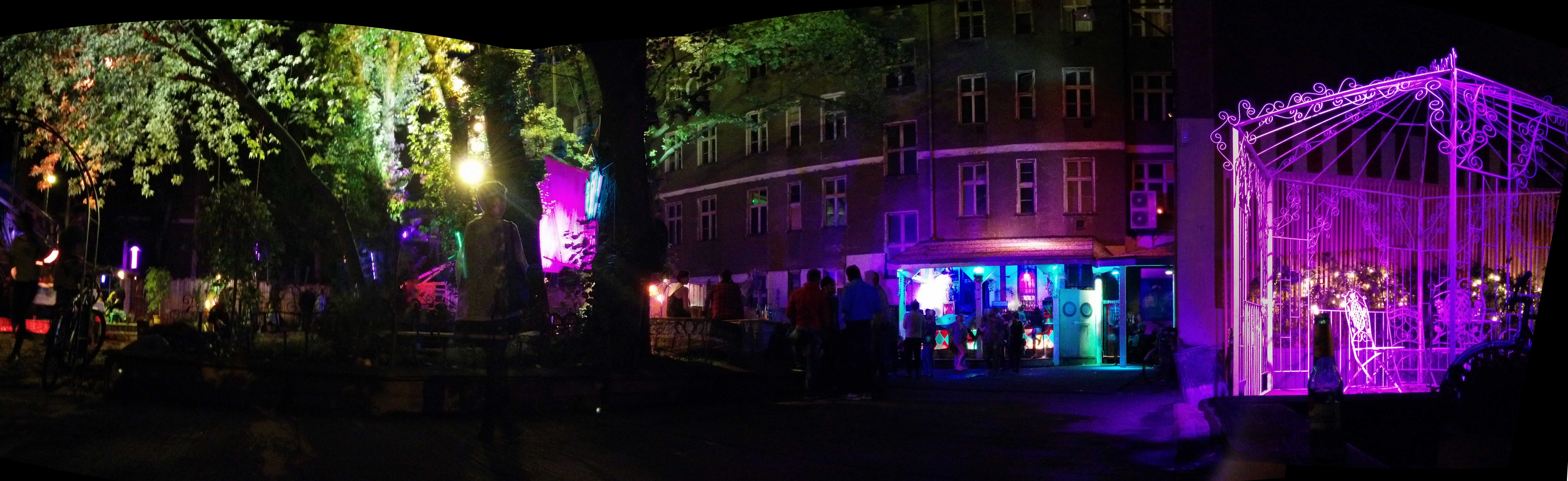 The courtyard of the Wilde Renate nightclub in Berlin in July 2014.